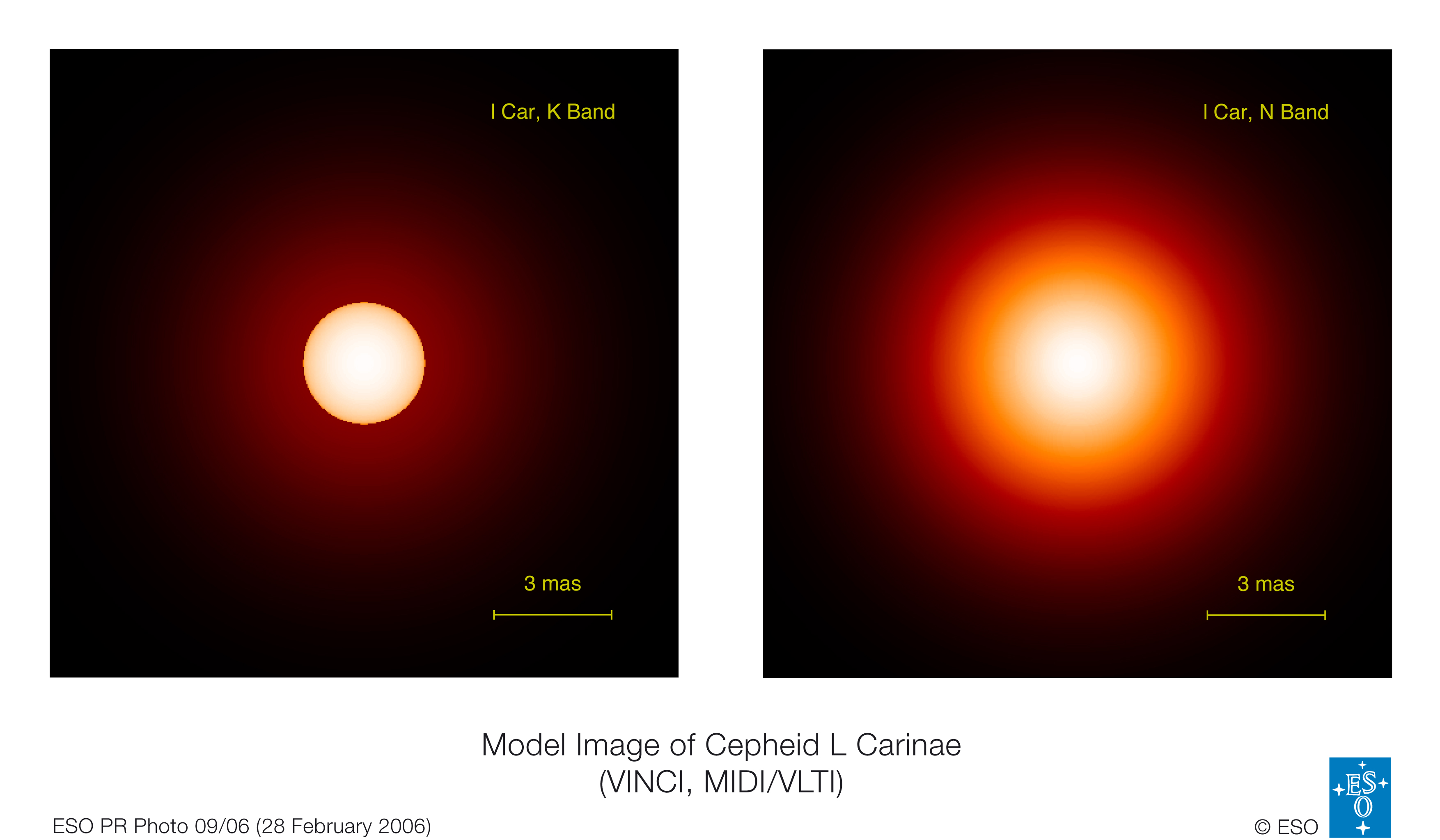 Two model images of the Cepheid star l Carinae as deduced from the interferometric observations: in the near-infrared from VINCI measurements (left) and in the mid-infrared from MIDI (right). In both cases, an envelope is found to surround the star. The contribution from the envelope is about 5% in the near-infrared and significantly more in the thermal infrared. As l Carinae is 17 000 times brighter than the Sun, this means that its envelope alone is several hundred times brighter than our Sun!